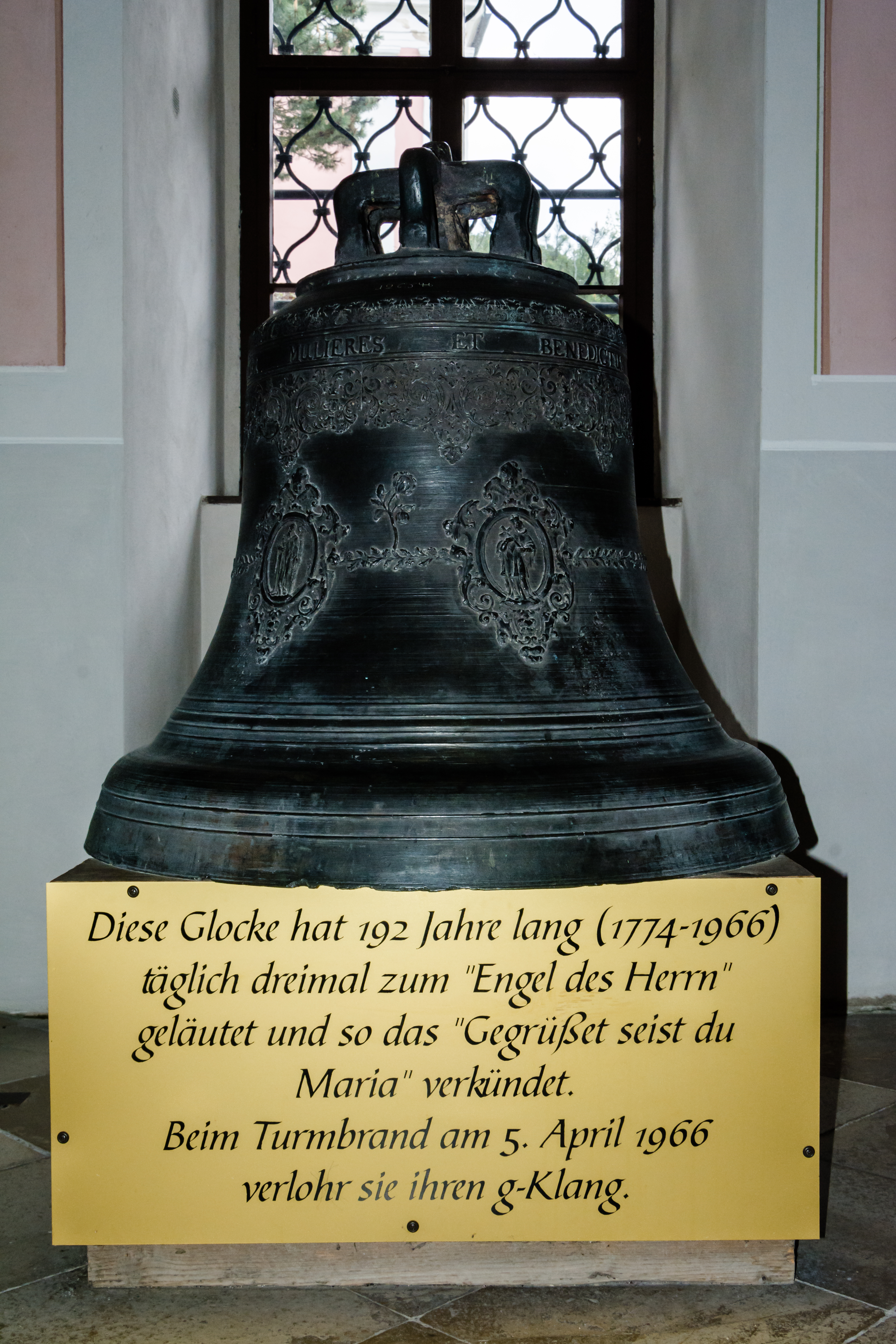 Old bell of the pilgrimage church of Maria Langegg, Lower Austria. The bell was cast by Franz Josef Scheichel in 1774, and was damaged by wildfire on 5th April 1966. It is now exposed in the interior of the church.